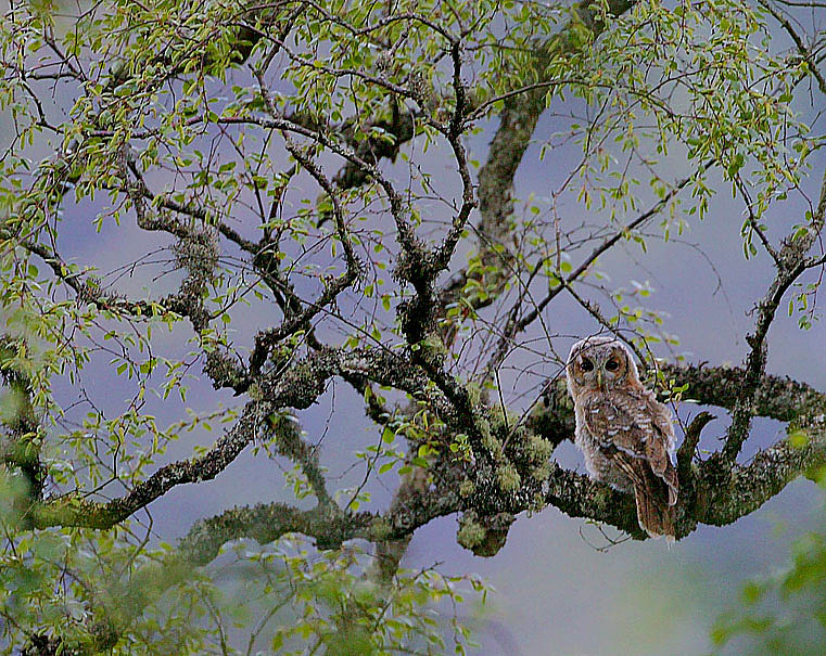 Tawny Owls are early nesters and the young often bale out of the nest well before they can fly properly. This youngster was photographed on the edge of a Birch Forest adjacent to the Black Wood of Rannoch, (Scotland). It appeared to be the youngest of four siblings, all of which were nearby.